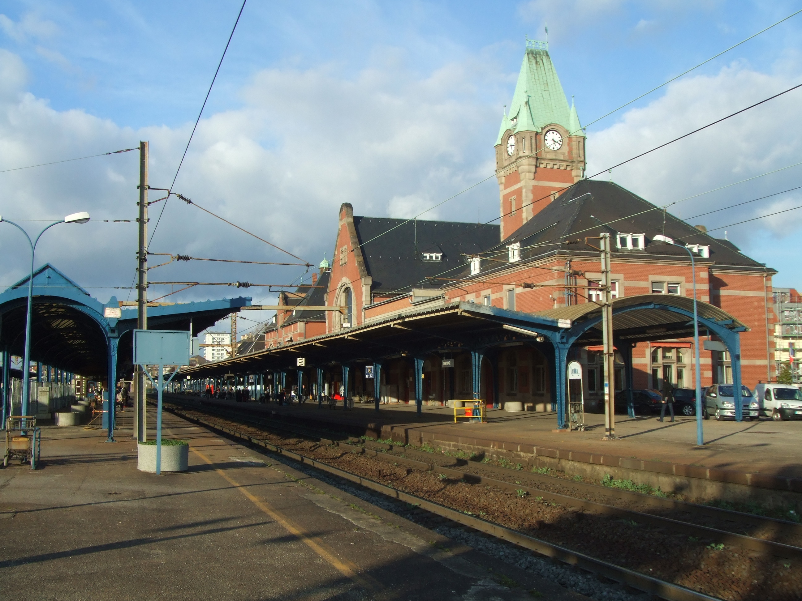 Colmar Station on the Strasbourg - Mulhouse line, 7/10.